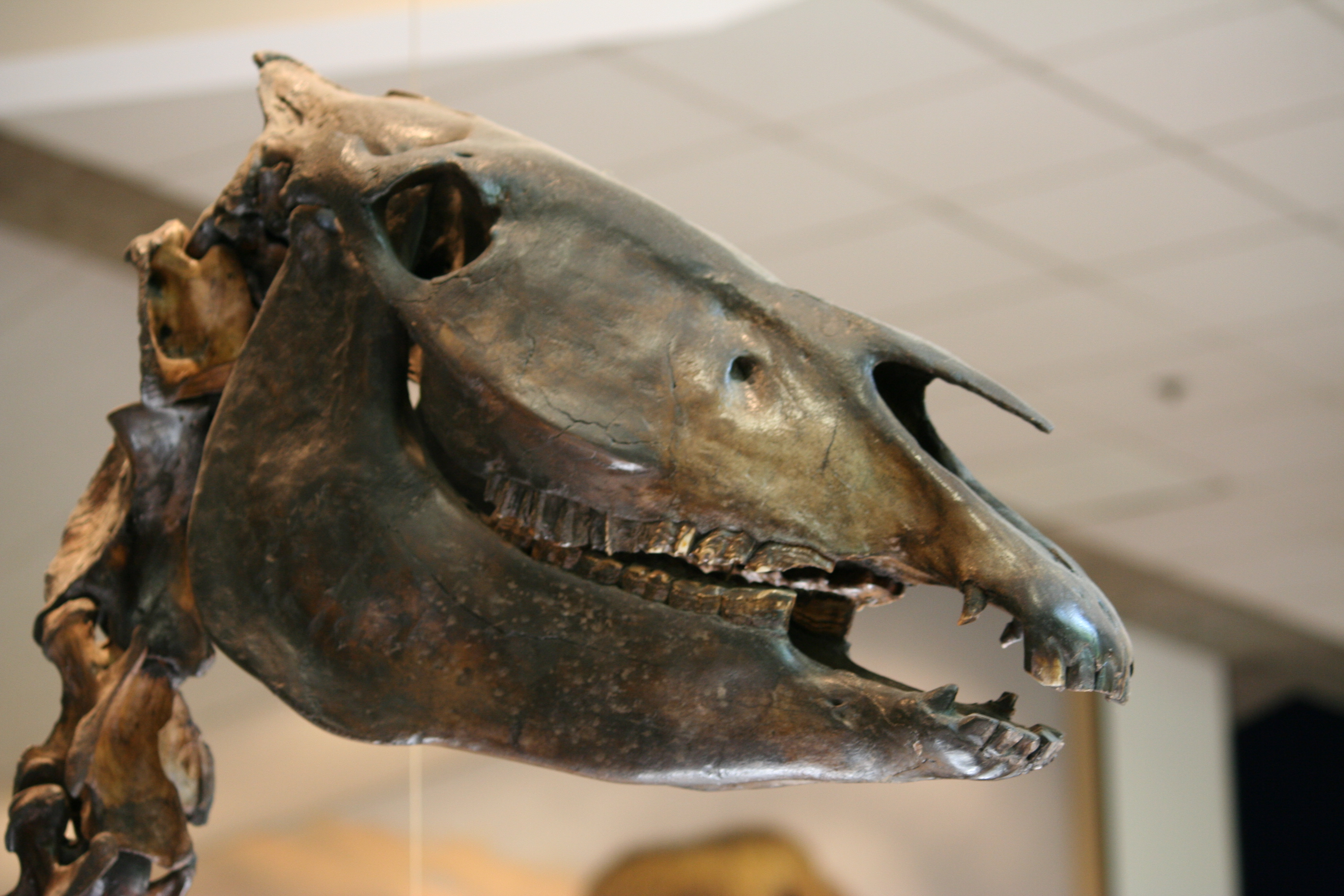 Equus occidentalis from the La Brea Tar Pits